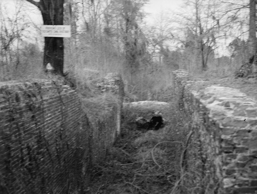 Santee Canal, Lake Moultrie vicinity, Berkeley County, SC